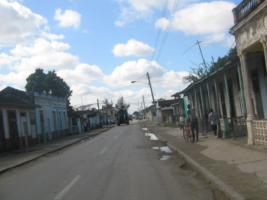 A view of the state road crossing the north of Cruces (Cienfuegos Province, Cuba). The road links Ranchuelo to Cienfuegos